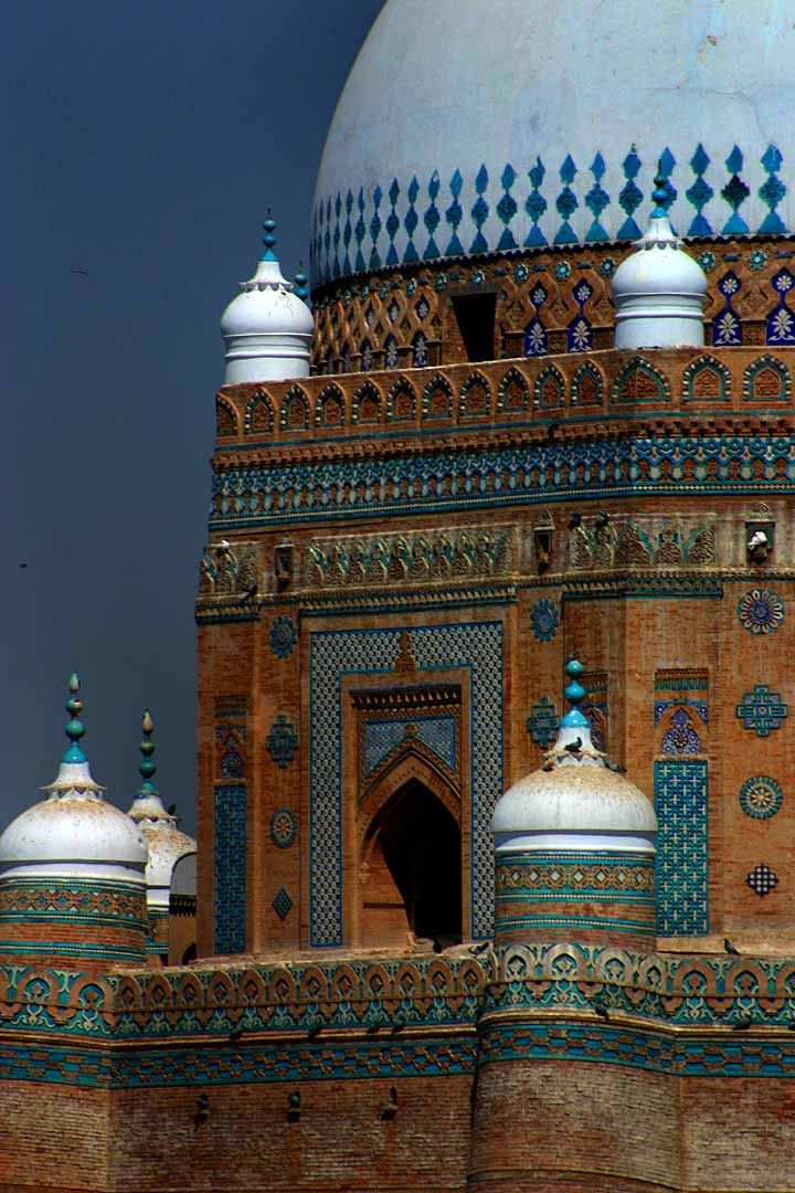 Shah Rukhn-i-Alam in Multan